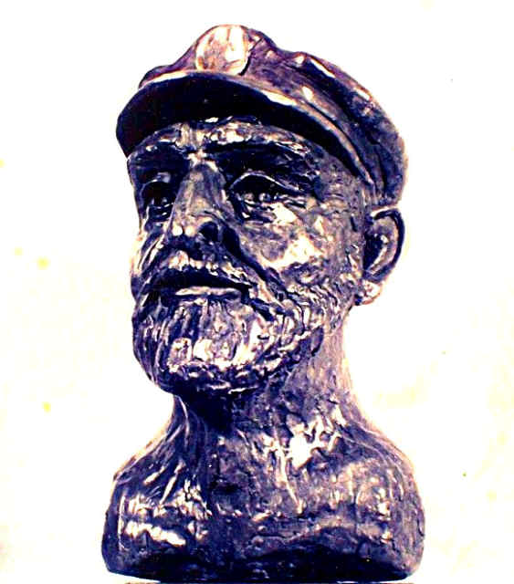 Portrait Bust of Tristan Jones sculpted from life by William Barth Osmundsen at the Annapolis Sailboat Show. October 1987